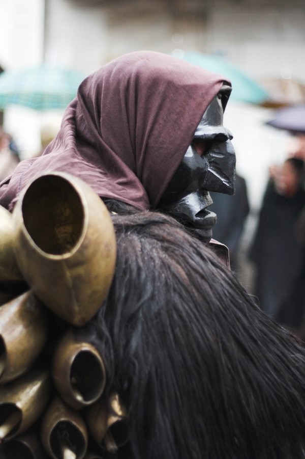 Mamuthone, traditional carnival costume of Mamoiada, Sardinia, Italy